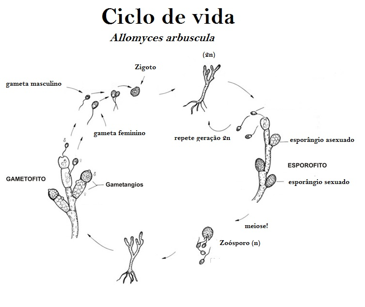 Ciclo de vida de "Allomyces arbuscula"